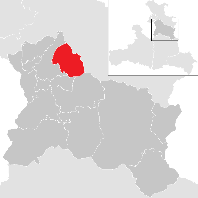 District Hallein